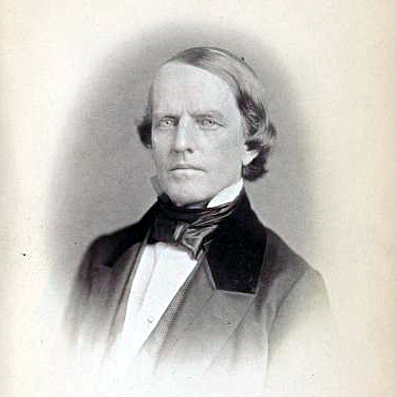 David Ritchie, US Representative from Pennsylvania